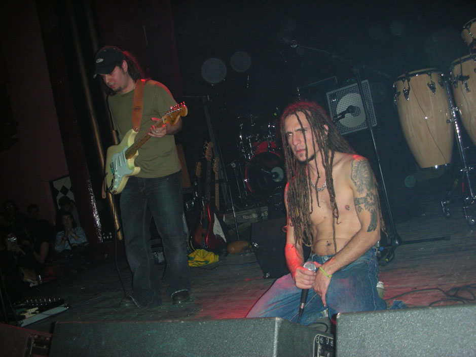 Habana Blues Band Sala Apolo - Barcelona 2007